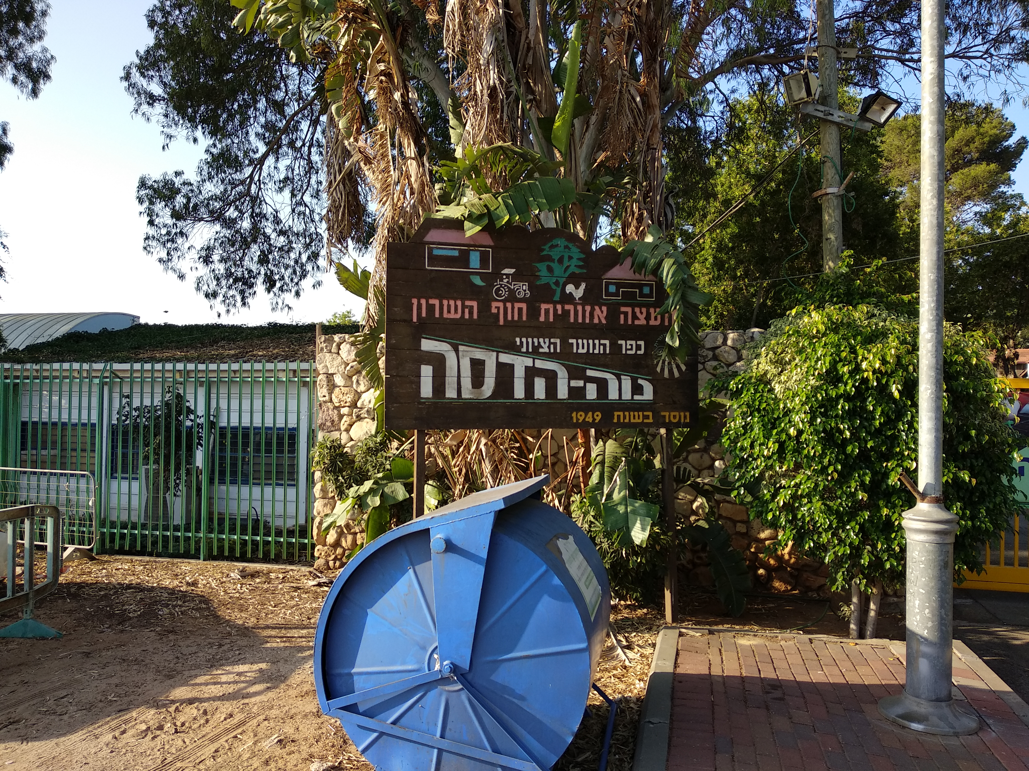 Neve Hadasa entrance